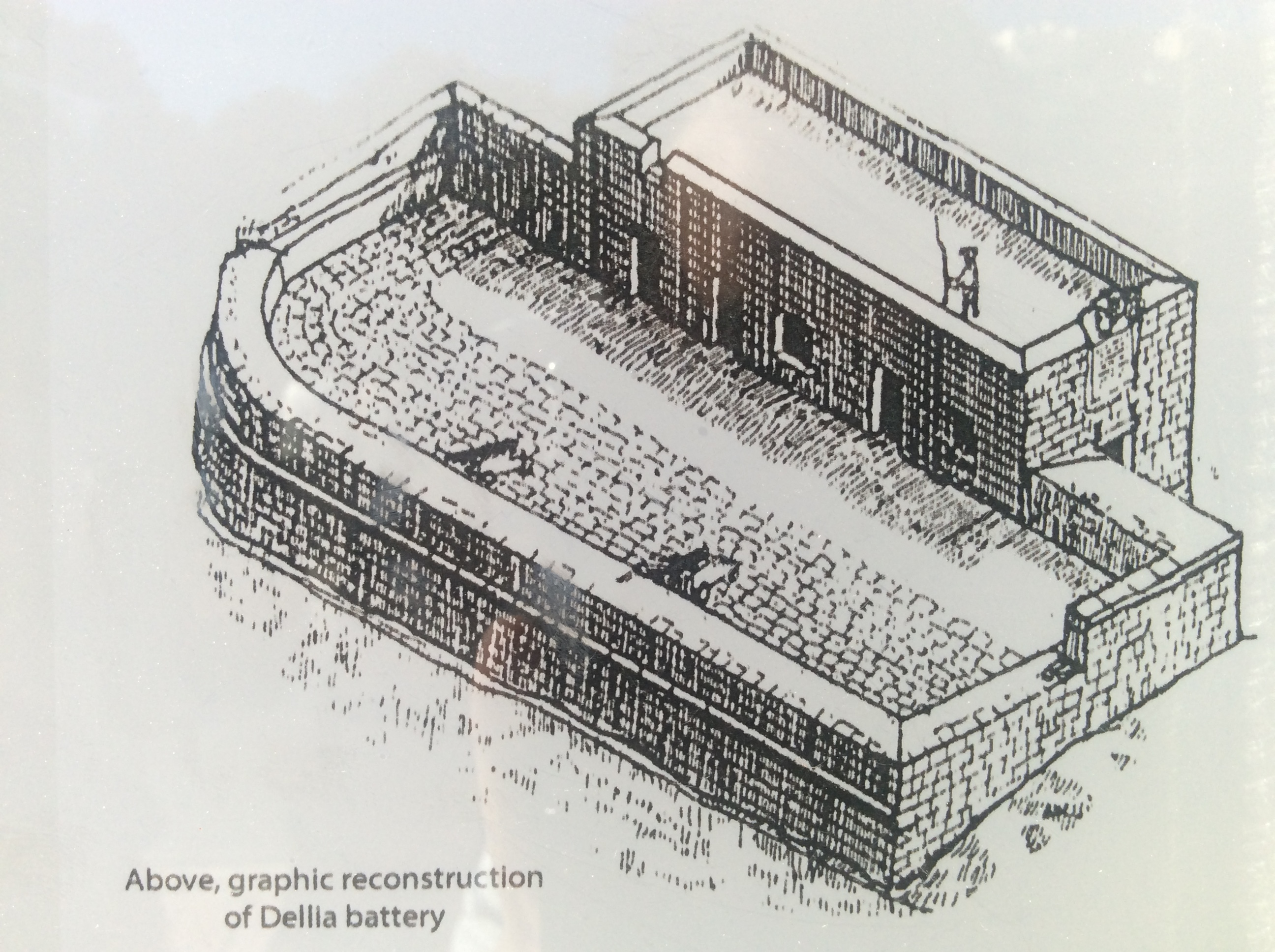 Delija Redoubt image on public monument - public domain